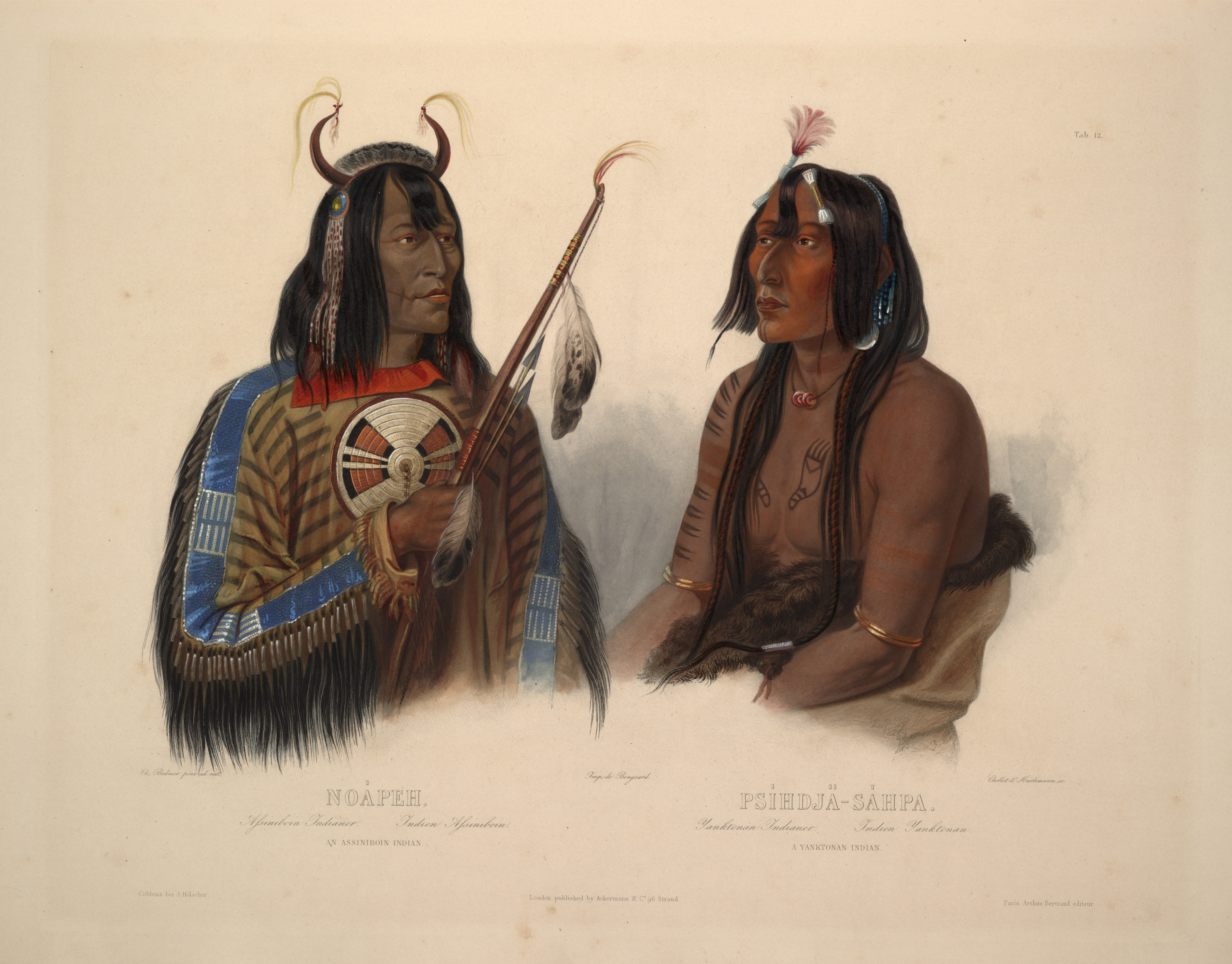 An Assiniboin indian and a Yanktonan indian